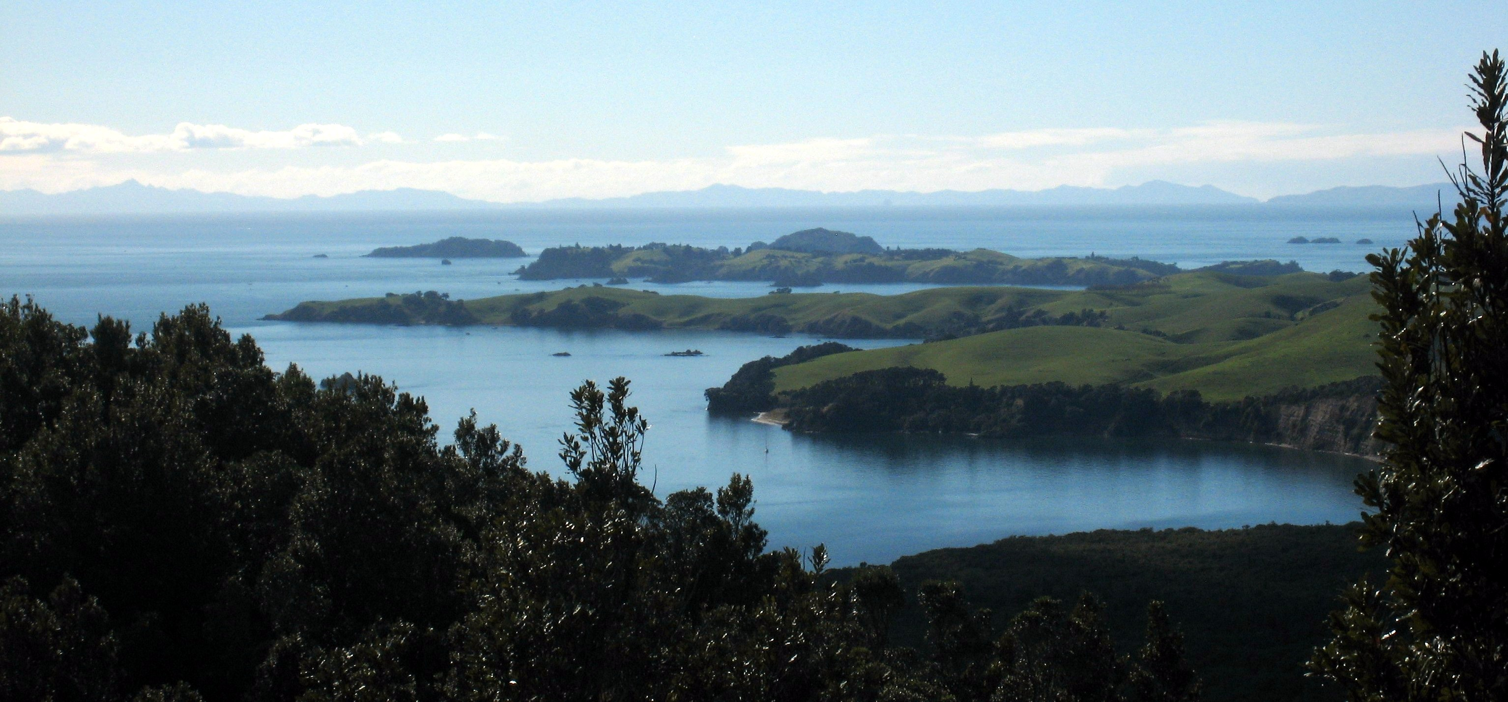 View from near the summit of Rangitoto Island, Auckland, New Zealand, looking out over Motutapu, Rakino and the Noises. The closest two grassy headlands are part of Motutapu Island. Rakino Island, almost as grassy, is a little more distant. Bush-covered Otata Island, the largest of the Noises group, peers over Rakino, and Motuhoropapa Island (the second largest) lies to Rakino's left. Great Barrier Island is visible along the horizon, with the tip of the Coromandel Peninsula appearing in the far right.